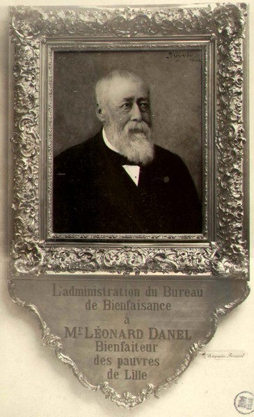 Portrait de Léonard Danel, « témoignage de reconnaissance à M. Danel de l’administration du bureau de Bienfaisance à M. Danel, bienfaiteur des pauvres de Lille » photo Ferrand, d’après un portrait de Duyverdimensions : 31 x 24 cmdate : 1904 [1904]